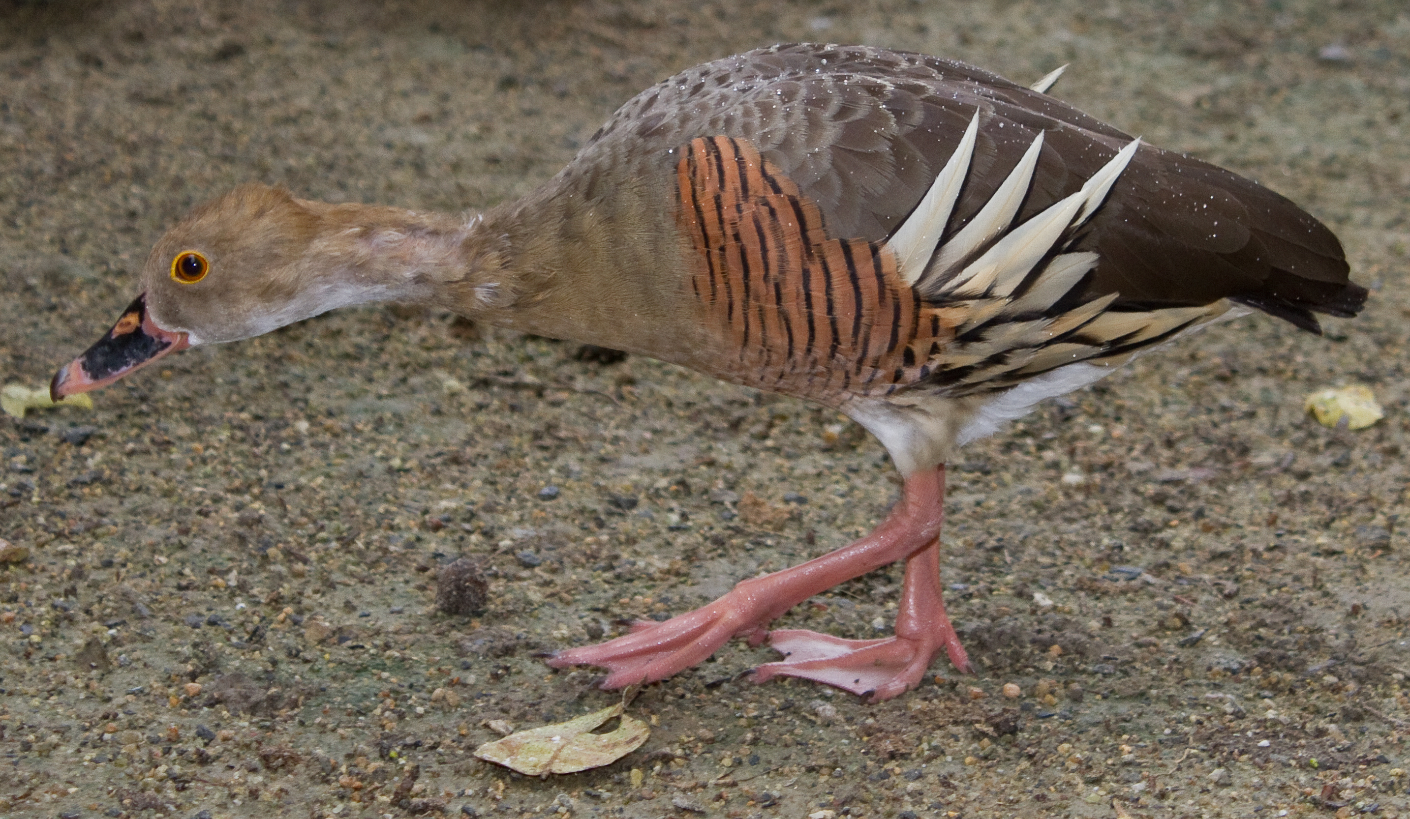 A Plumed Whistling Duck at Australia Zoo, Queensland, Australia.